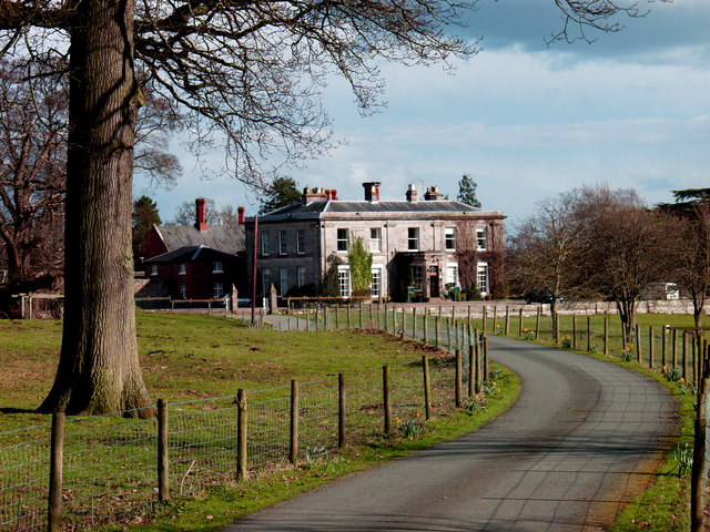 Sweeney Hall by Morda. Sweeney Hall is now a hotel.